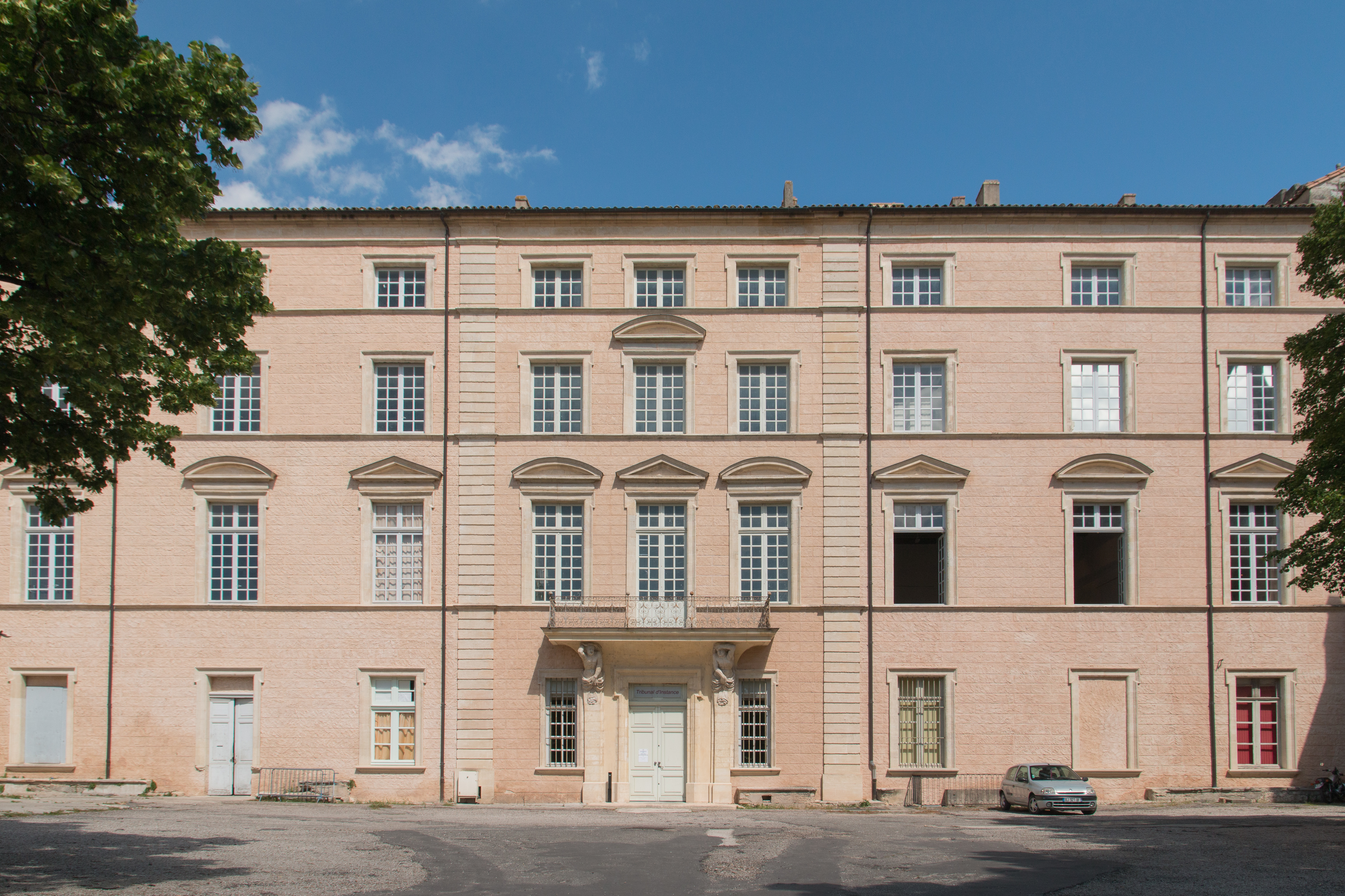 Courtyard of the Episcopal Palace.